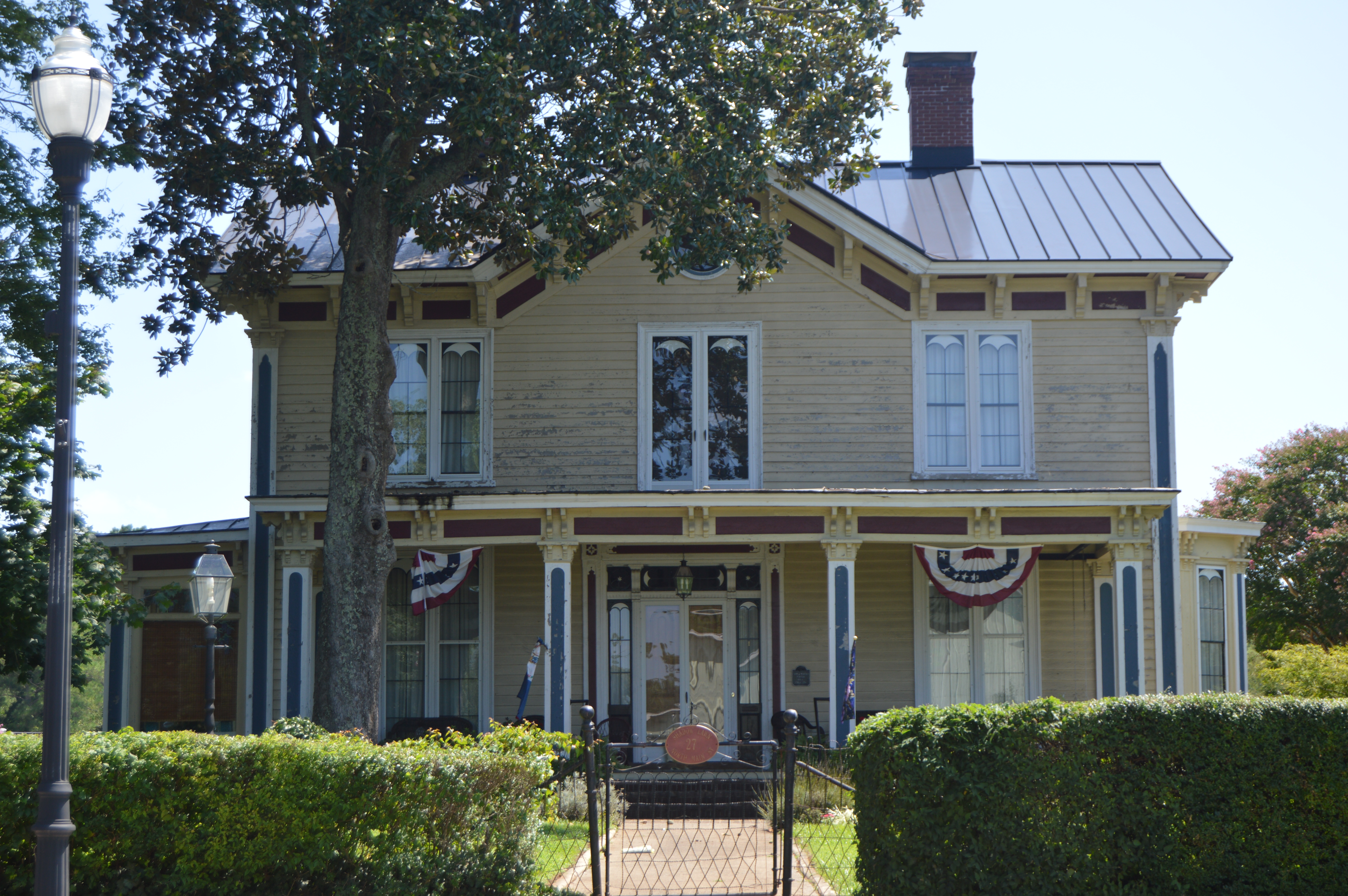 Front of Shadow Lawn, located at 27 N. Main Street (State Route 92) in Chase City, Virginia, United States. Built in 1869, it is listed on the National Register of Historic Places.